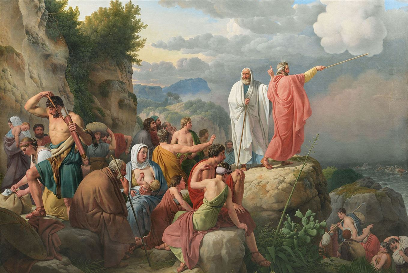 The Israelites Resting after the Crossing of the Red Sea. Original at Statens Museum for Kunst